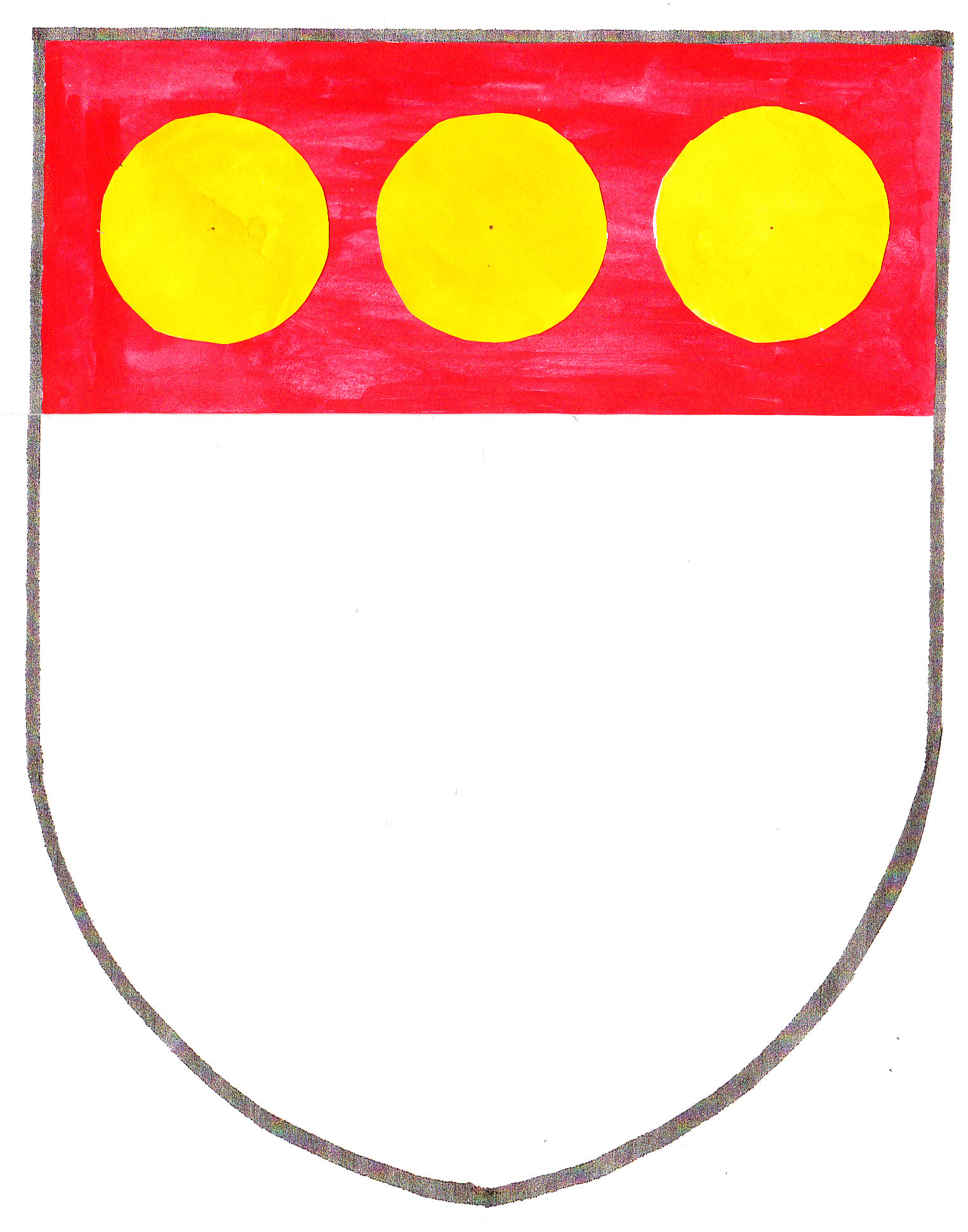 Armorials of Russell of Dyrham, Gloucestershire, and Kingston Russell, Dorset: "Argent, on a chief gules 3 bezants". Burke's Armorials, 1884. It appears on the Denys funerary brass in the Parish Church of Saint Mary the Virgin, Olveston, Gloucestershire, England, UK.